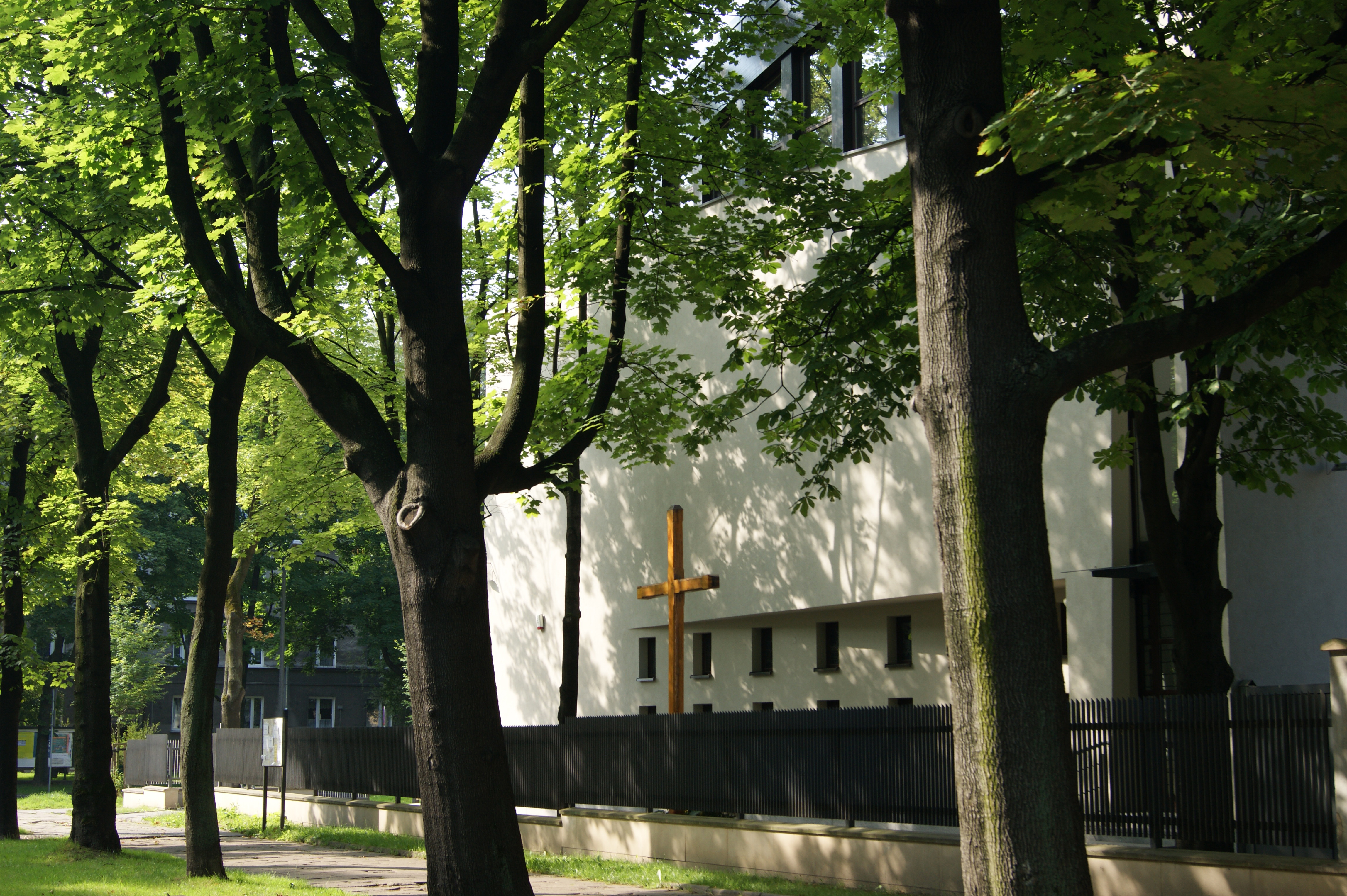 Nowa Huta cross (now), os. Teatralne, Nowa Huta, Krakow, Poland